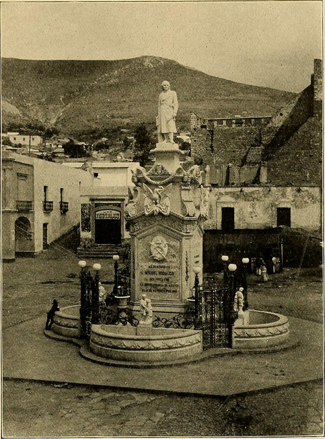 Identifier: mexicohistoryofi00wrig Title: Mexico, a history of its progress and development in one hundred years Year: 1911 (1910s) Authors: Wright, Marie Robinson, 1866-1914 Subjects: Publisher: Philadelphia, G. Barrie & sons [etc., etc.] View Book Page: Book Viewer About This Book: Catalog Entry View All Images: All Images From Book Click here to view book online to see this illustration in context in a browseable online version of this book. Text Appearing Before Image: ttracted wide-spread attention. There isa Scientific and IndustrialLiterary Institute in whichare prosecuted the studiesnecessary for the occupa-tions of assaying, topo-graphic, hydrographic, andmining engineering. Thereis also a practical miningschool belonging to the Fed-eral Government where allpractical training in miningexploitation under profes-sors of Metallurgy is ac-quired. Pachuca has splendidarchitecture and some oldpalaces and churches form an interesting spectacle of the city. It is considered one of the most prosperouscities in the republic, in proportion to its population, and its rich metal districtsmake it noted as one of the most celebrated mining centres of the world. The churches, La Parroquia, San Francisco and San Juan de Dios are notablefor their solid masonry and size. A beautiful theatre, a literary institute ofhigher education and good charitable institutions are among the more notablebuildings. Private academies flourish and a Prostestant church built by the Text Appearing After Image: STATUE OF HIDALGO. 320 MEXICO English-speaking colony help to make this city picturesque and interesting, withits admixture of ancient and modern architecture. During the month of September, when the Mexicans were celebratingtheir Centennial of Independence, this capital was foremost in its enthusiasm.